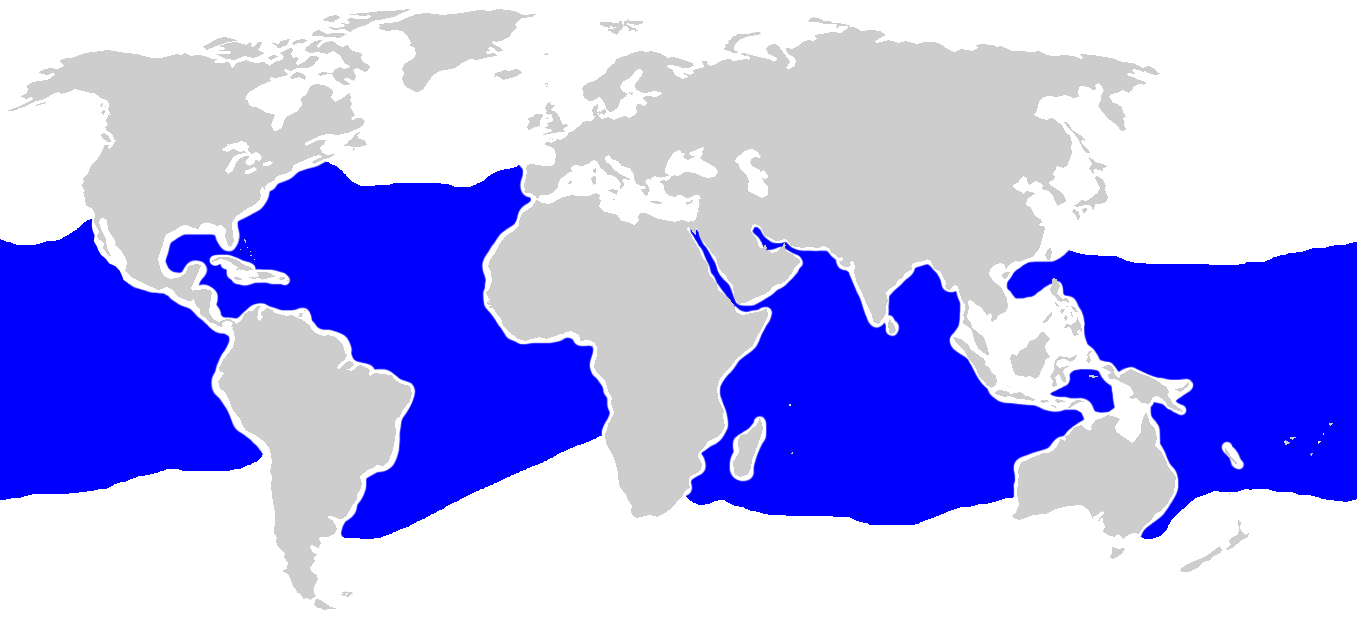 Distribution map for Carcharhinus longimanus